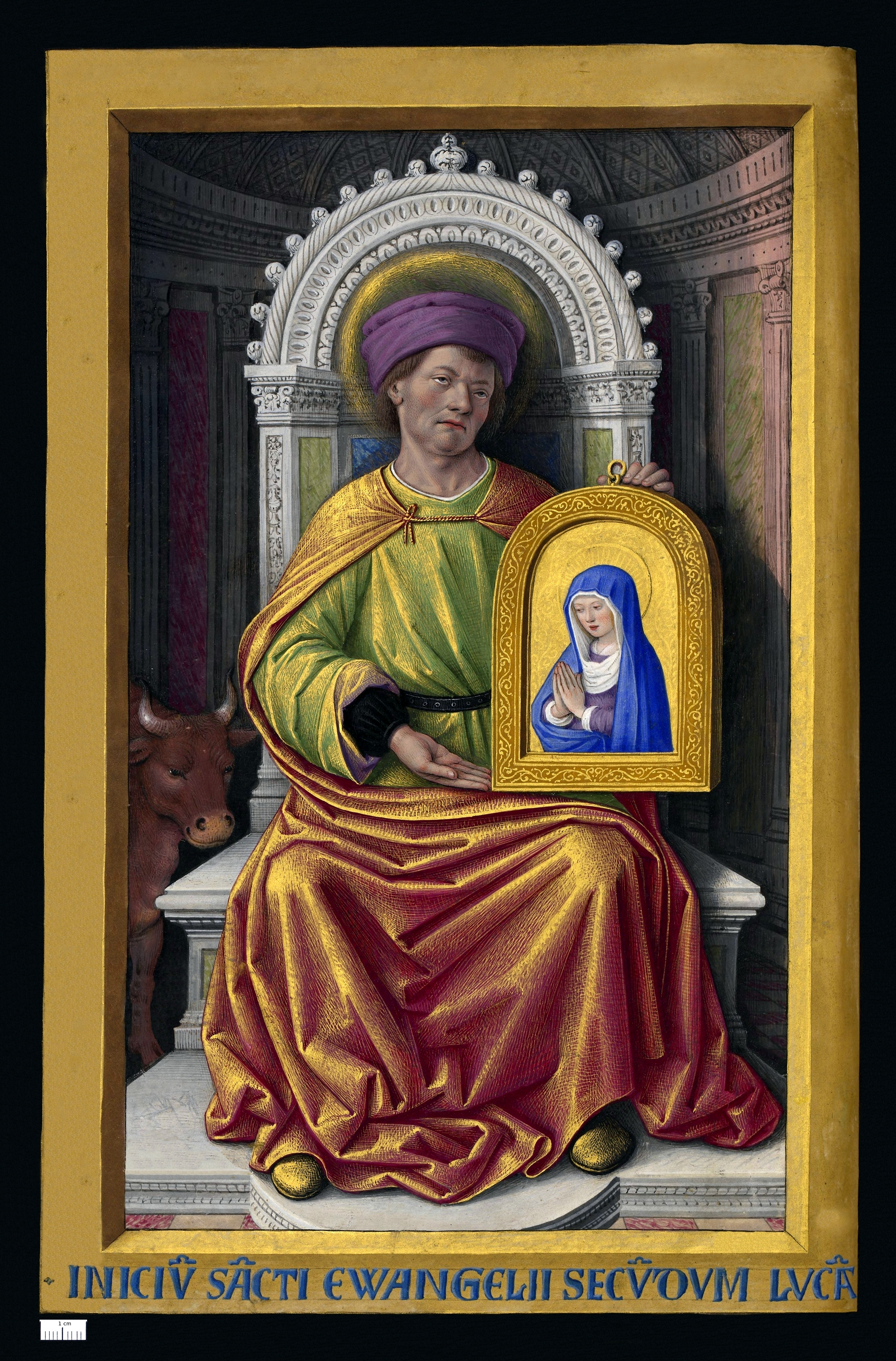 Luke the Evangelist, miniature from the Grandes Heures of Anne of Brittany, Queen consort of France (1477-1514).